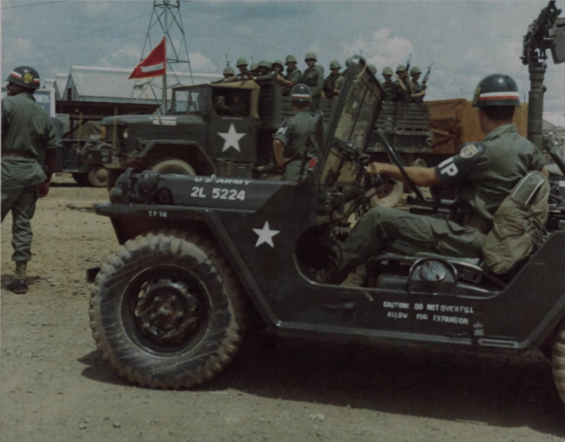 Military Police stop traffic to allow the 2 1/2 ton trucks carrying members of the Black Panther Division to leave Newport Docks, enroute to Bearcat.